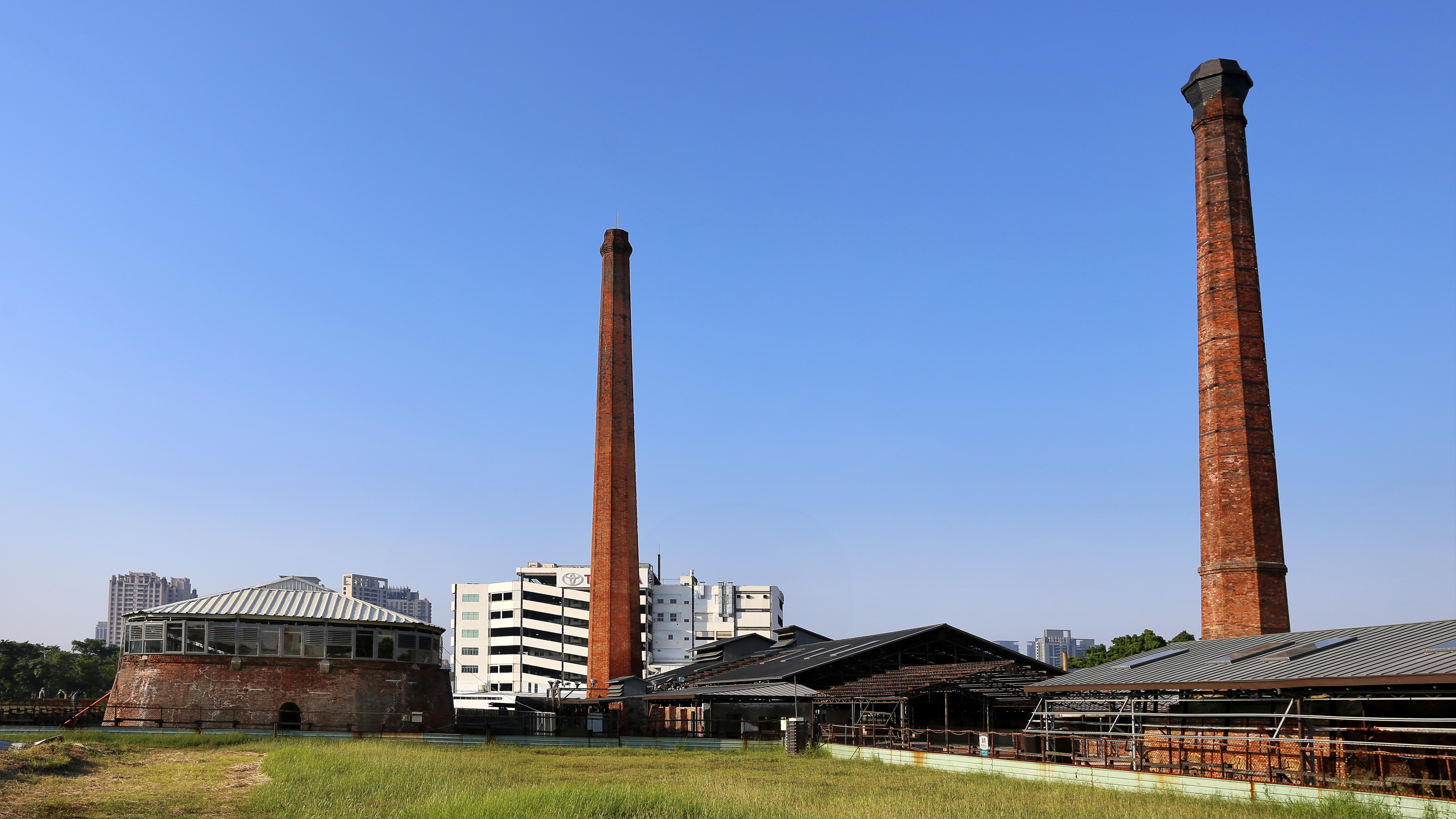 Former Tangrong Brick Kiln, Sanmin District, Kaohsiung City, Taiwan.